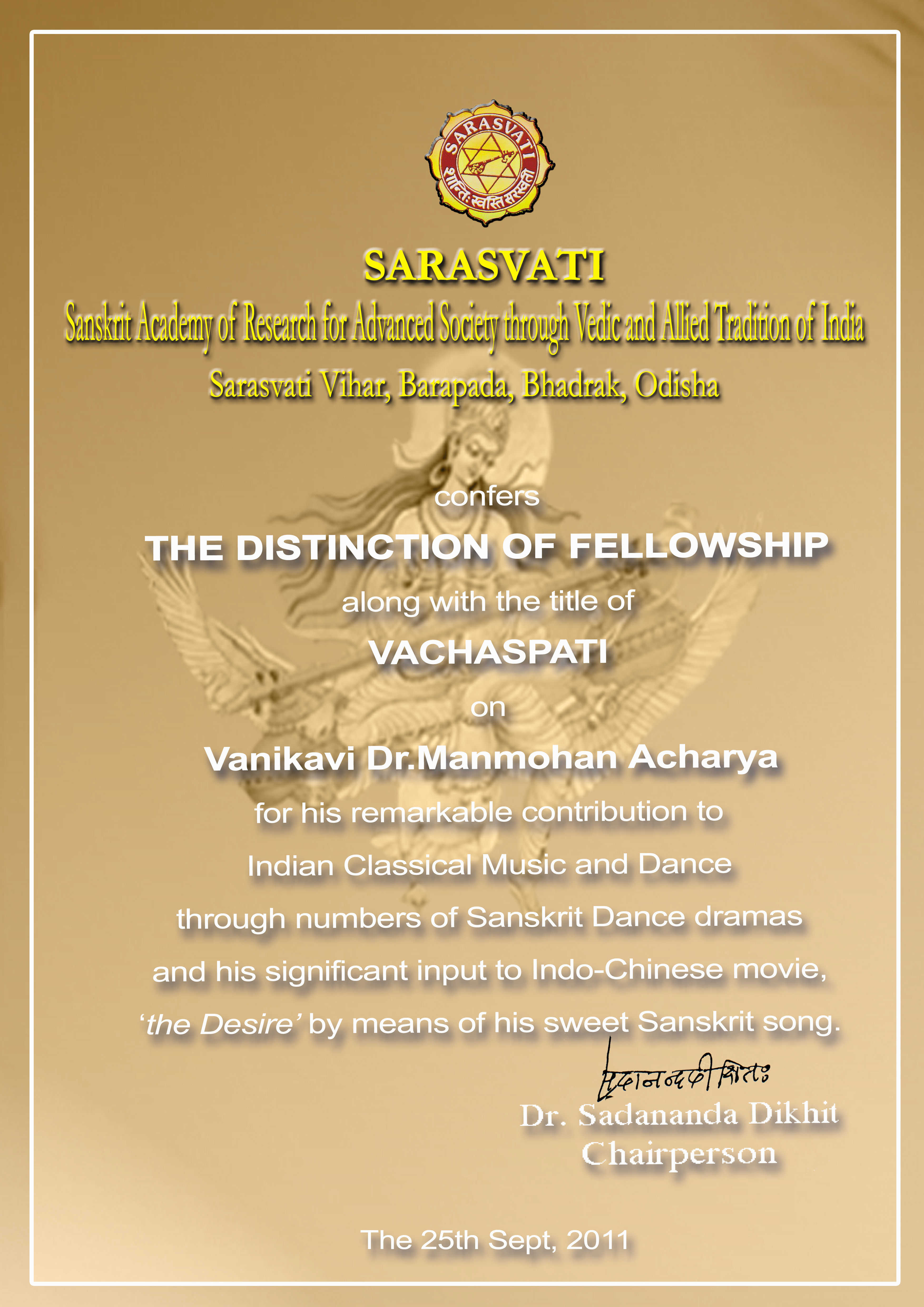 This is the image of certificate of honor conferred to Dr. Manmohan Acharya